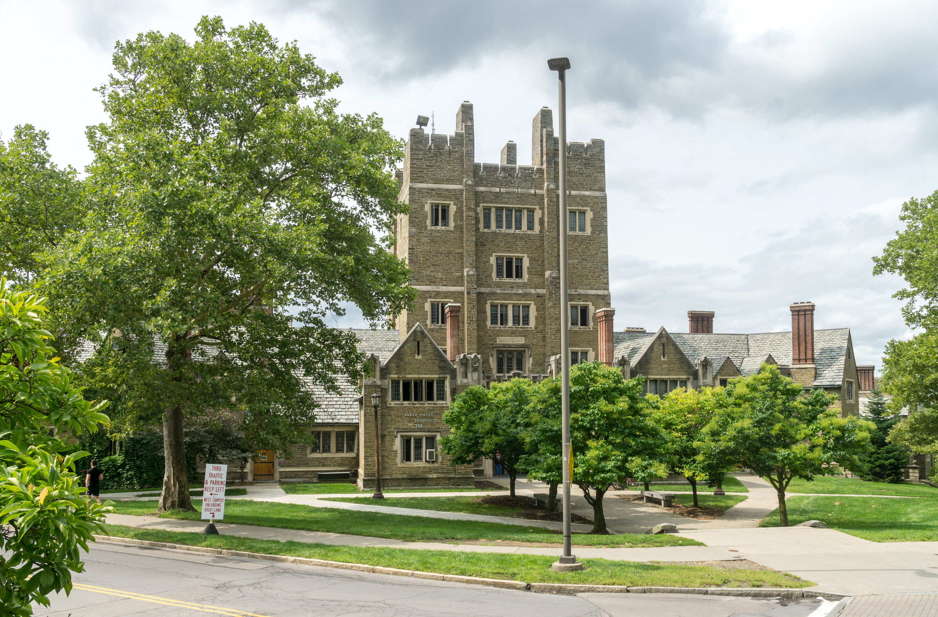 Baker Tower, a West Campus dormitory. Cornell University, Ithaca, New York